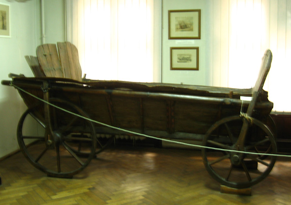 Chumaks waggons in Lviv History Museum